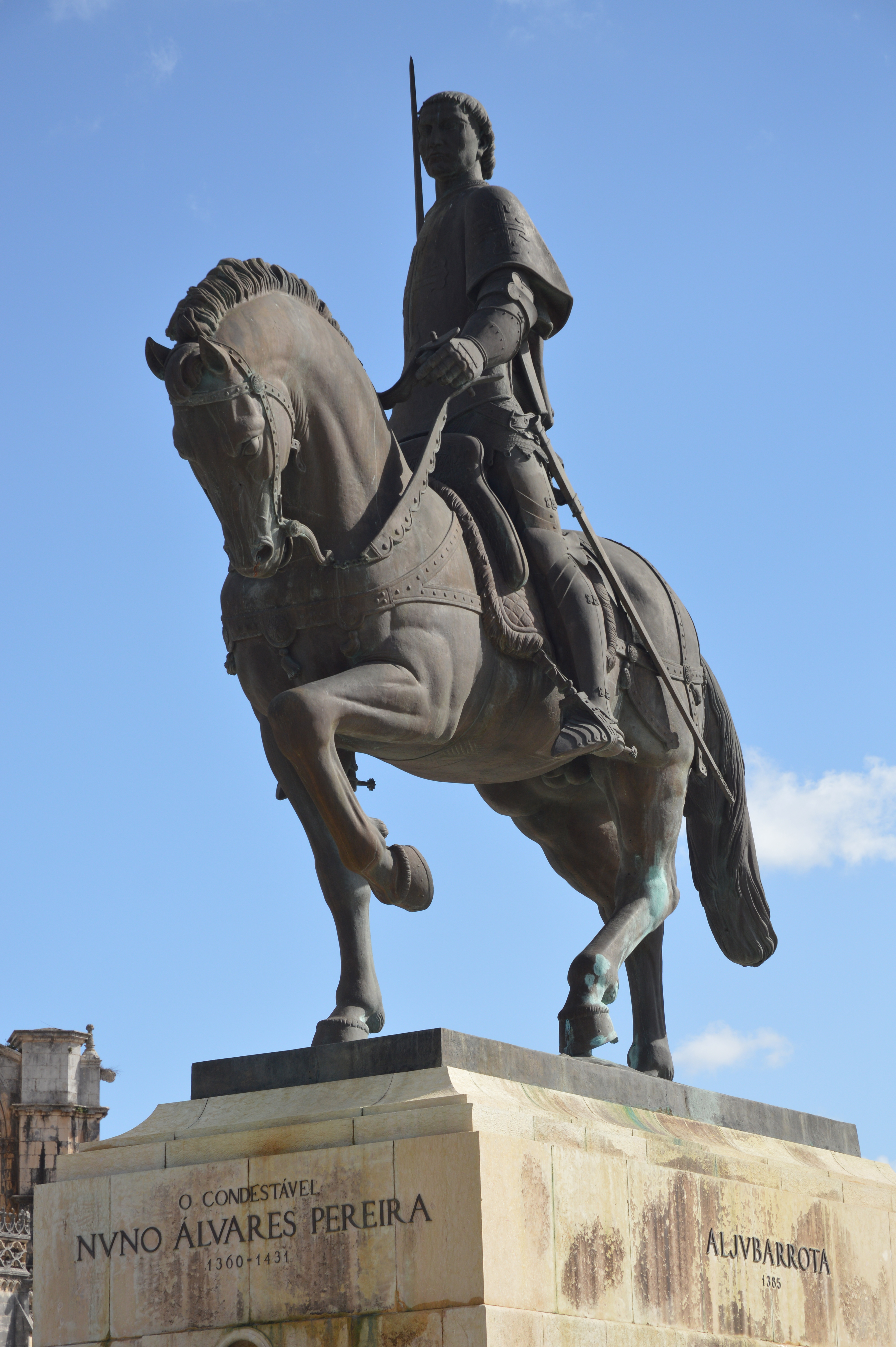 Portuguese general Alvares Pereira statue at the Monestery de Santa Maria da Vitoria in Batalha, Portugal.